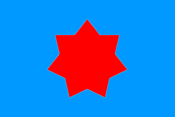 This is the proposal flag of Hokkaido Development Commission. Designed by Kiyotaka Kuroda(1840-1900).